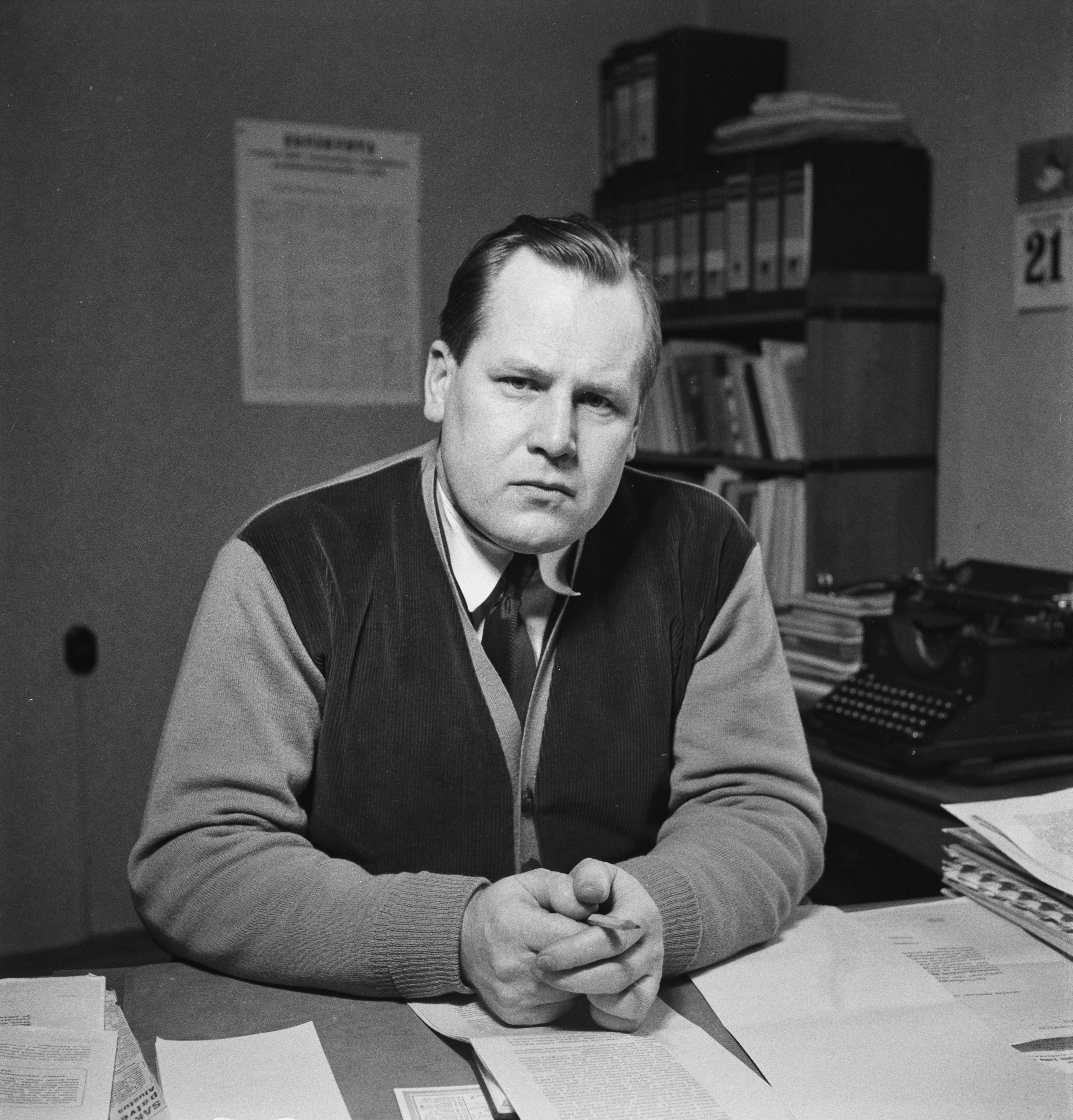 Photograph of the Finnish union leader Olavi Lindblom (1911–1990).